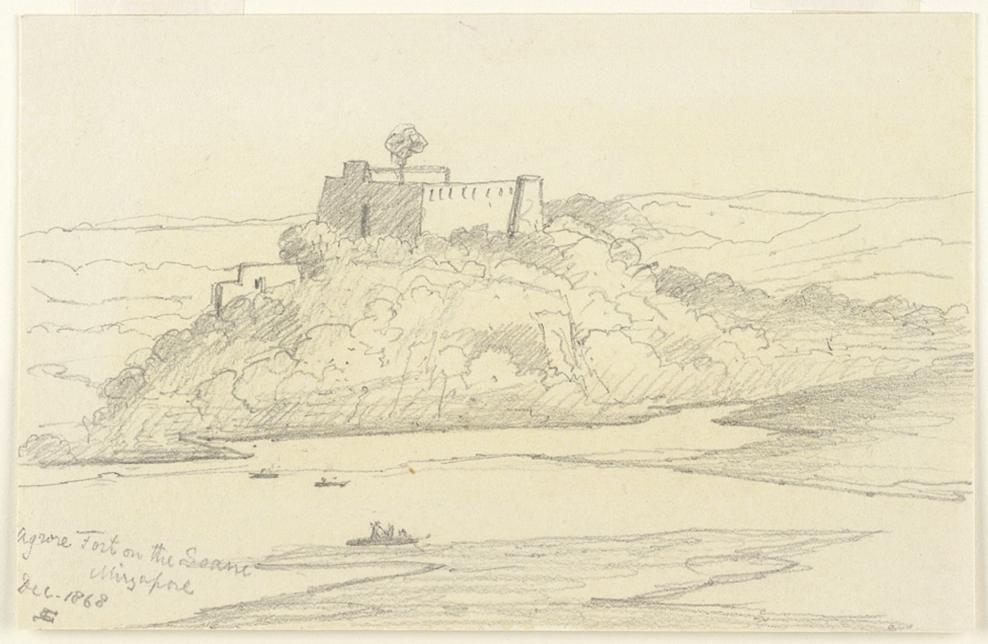 Pencil drawing of Agori Fort in Uttar Pradesh by Stanley Leighton (1837-1901) in December 1868. Inscribed on the front in pencil is: 'Agrore Fort on the Soane. Mirzapore district. Dec. 1868. S.L.' created by :w:Stanley Leighton